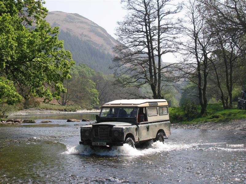 Land Rover Series III 109.